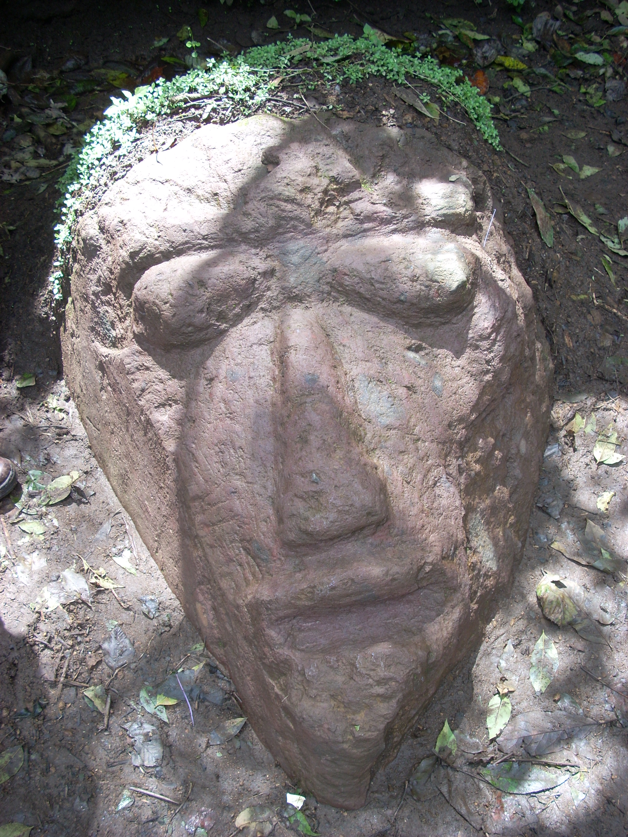 Boulder sculpture at Chojolom, Cantel, Quetzaltenango department, Guatemala. Compare with bottom left drawing of ceramic figure by Frederick Catherwood at File:Catherwood - Santa Cruz del Quiche, Plate XXIX.jpg